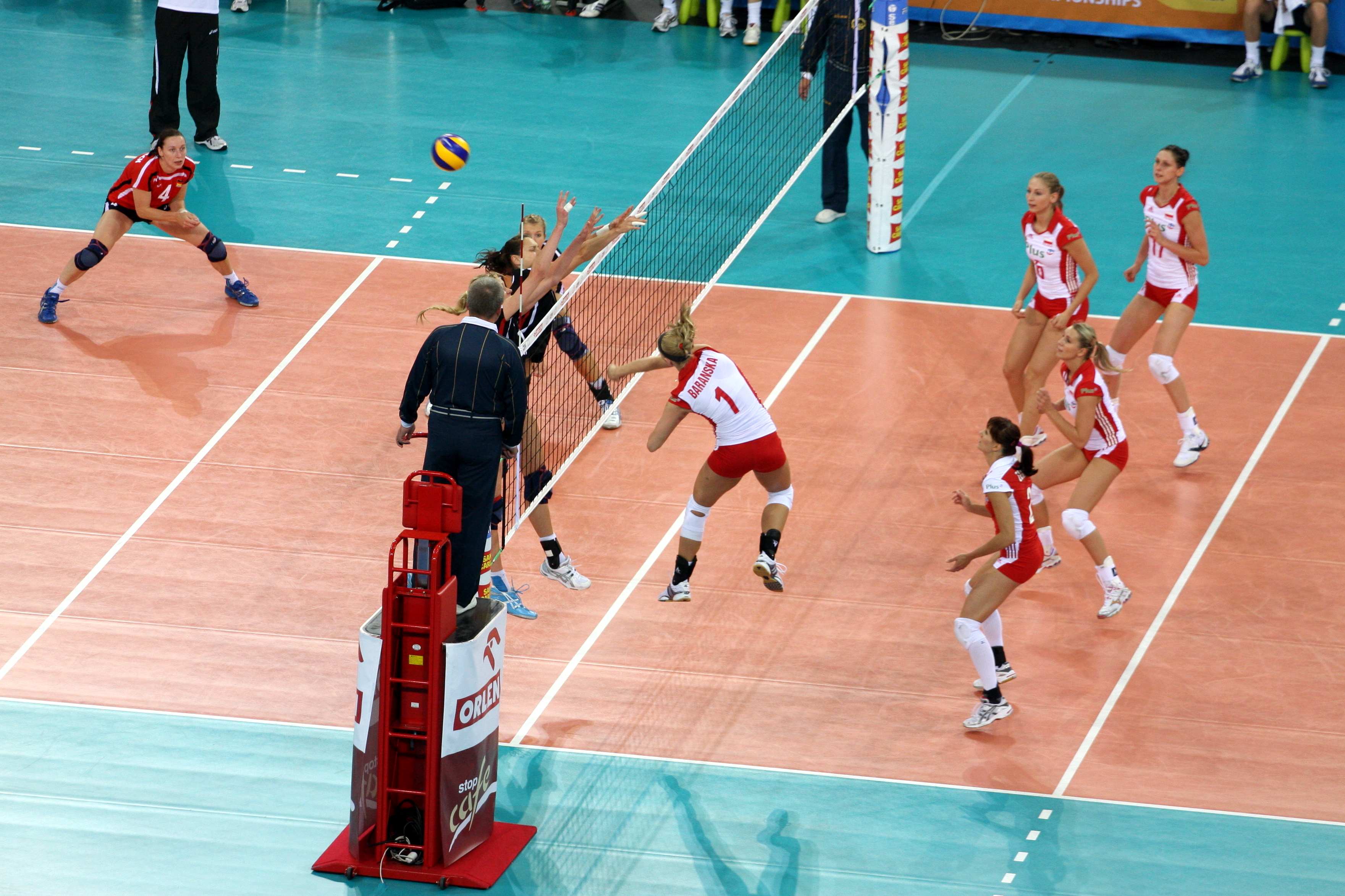 Bronze Medal Match, Women’s European Volleyball Championships 2009